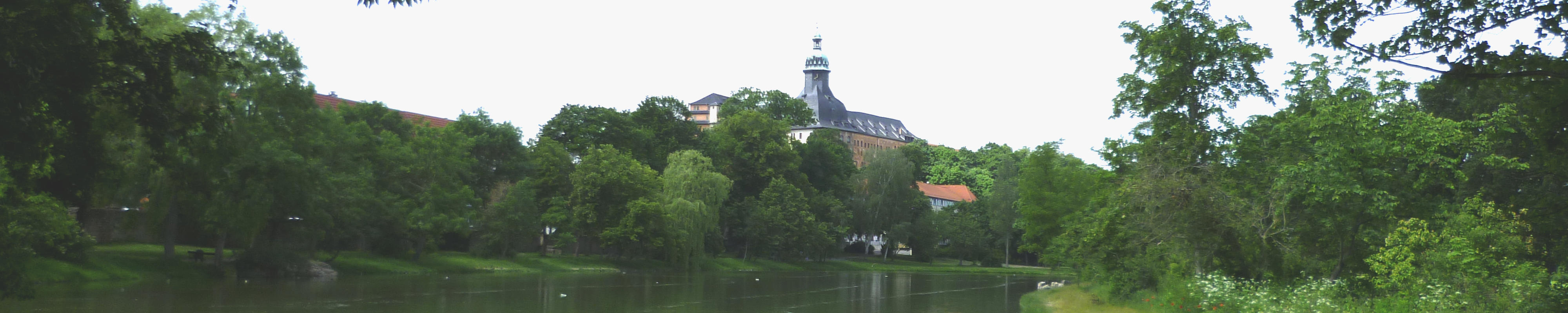 palace park of Sondershausen